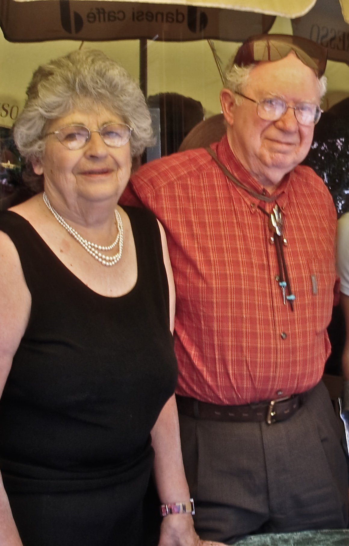 Thelma & Gerald Estrin, taken in Santa Monica, CA